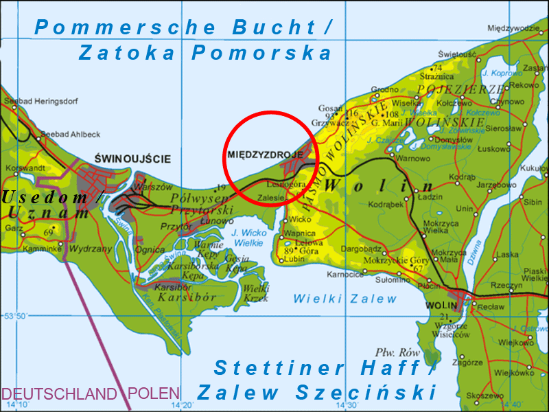 Map of Międzyzdroje - german description